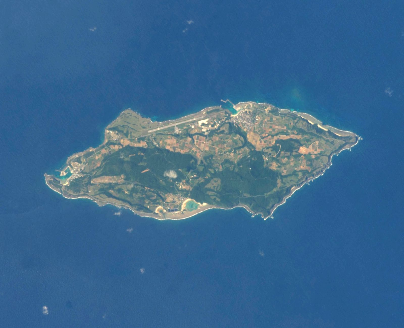 Yonaguni Island, the westernmost island in Japan, located in Okinawa Prefecture.